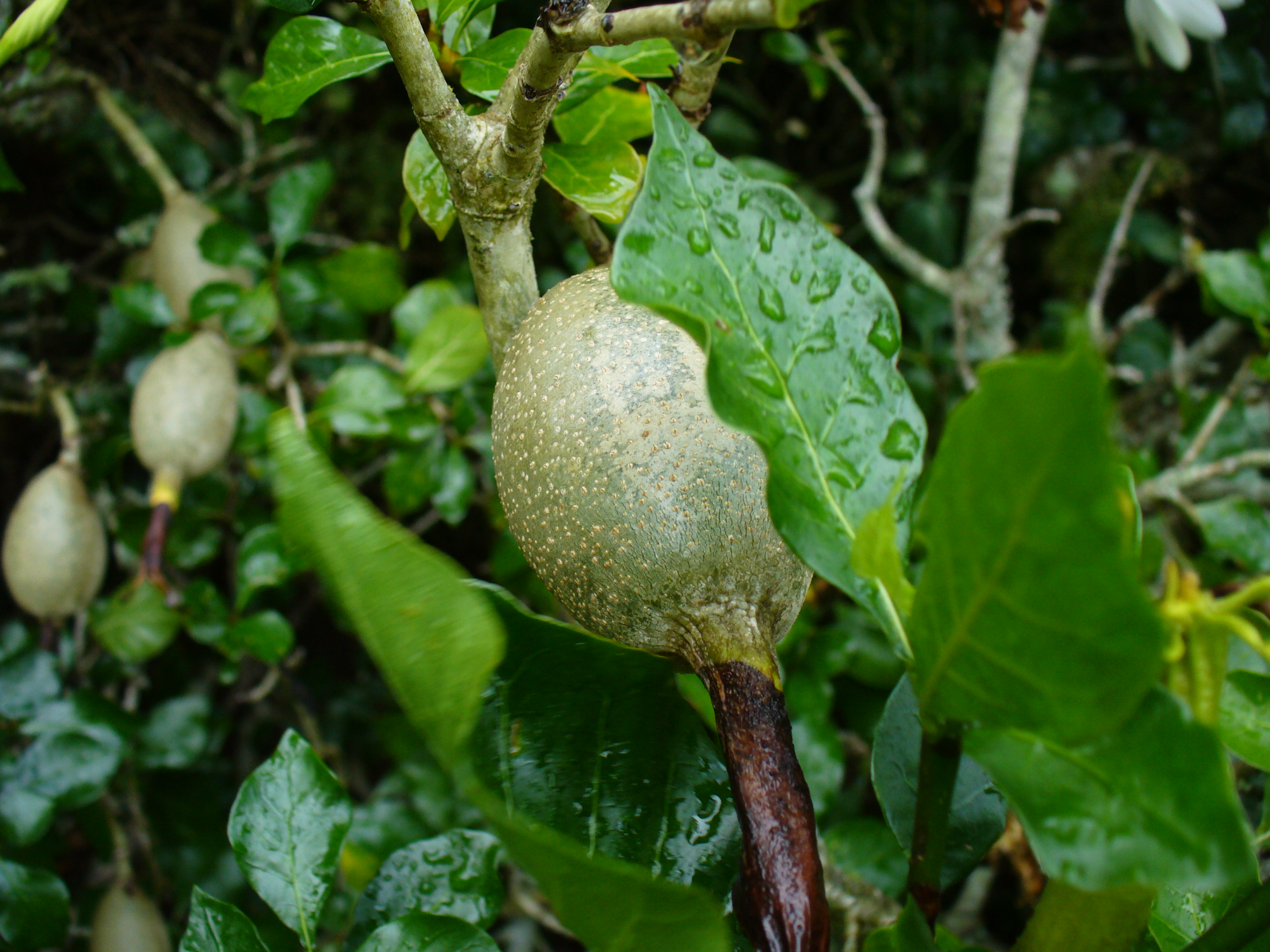 White Gardenia fruit